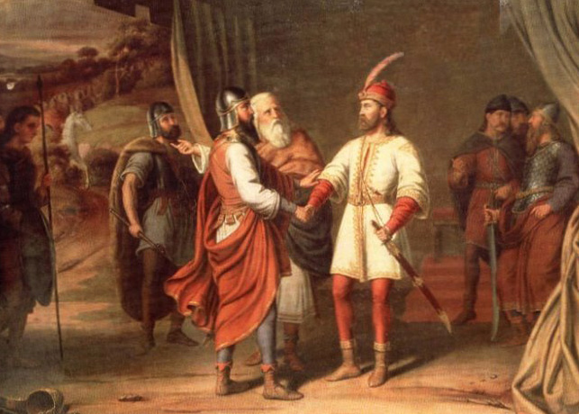 Ljudevit Posavski allying himself with Slavs. Painting by J. F. Mucke.